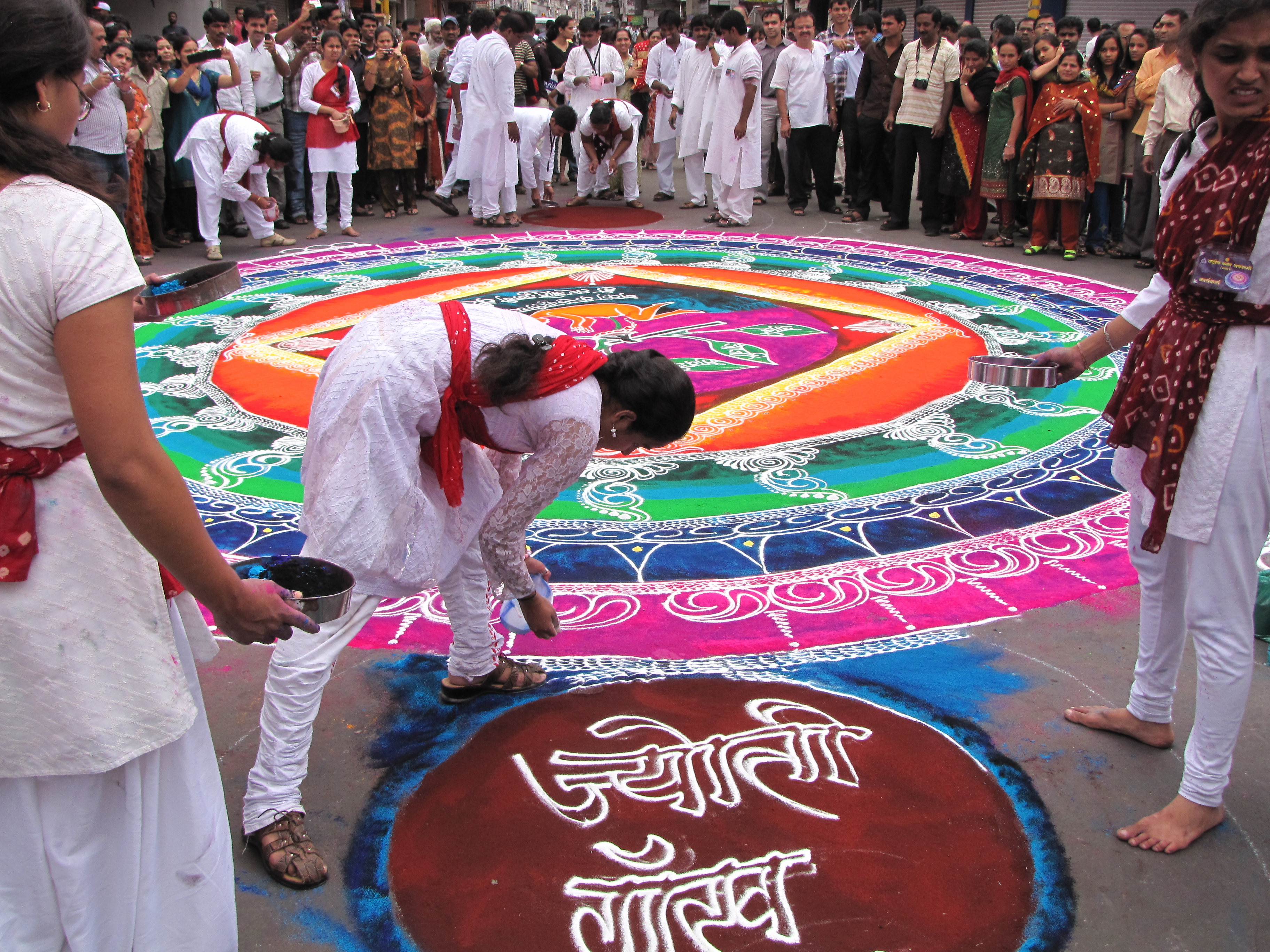 rangolis are drawn on the roads during the immersion procession